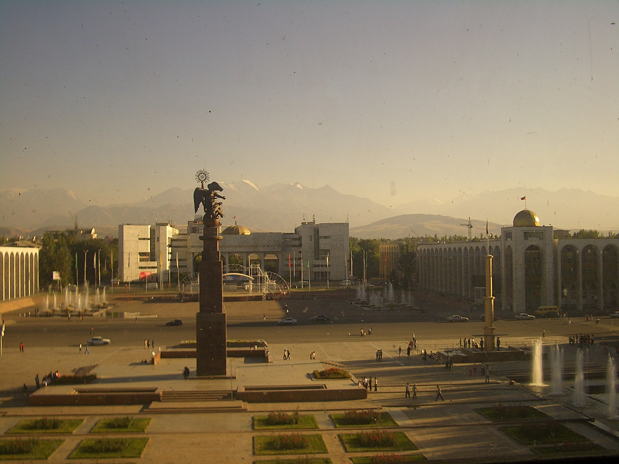 Bishkek's central Ala Too Square, with the Erkindik (Freedom) Monument. Seen from a window in the National Museum.